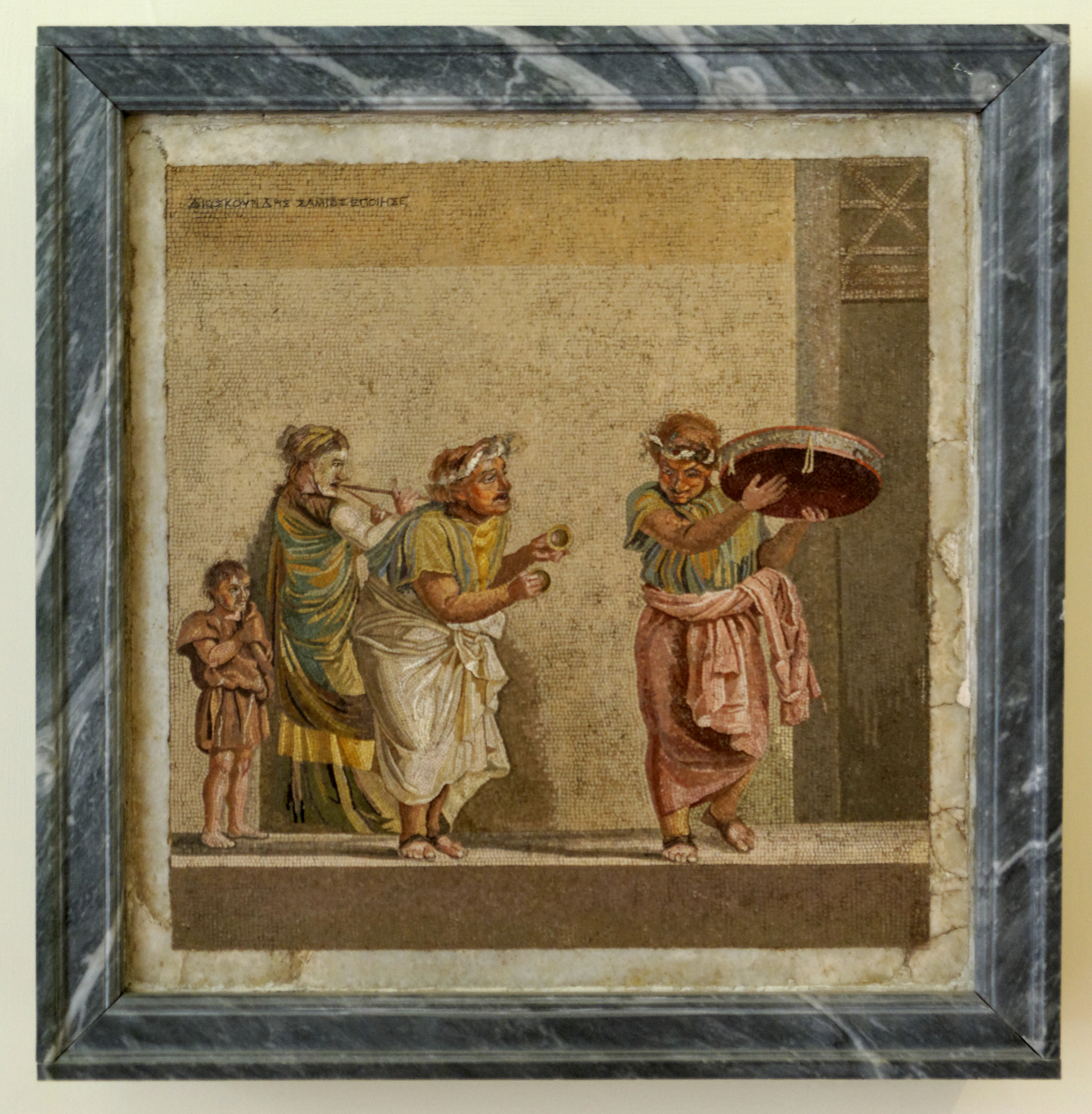 Naples, National Archaeological Museum, from Pompeii (Villa del Cicerone)